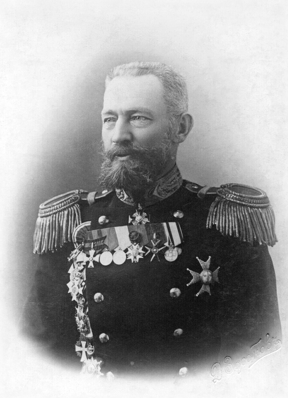 Iyessen, Karl Pertovich.